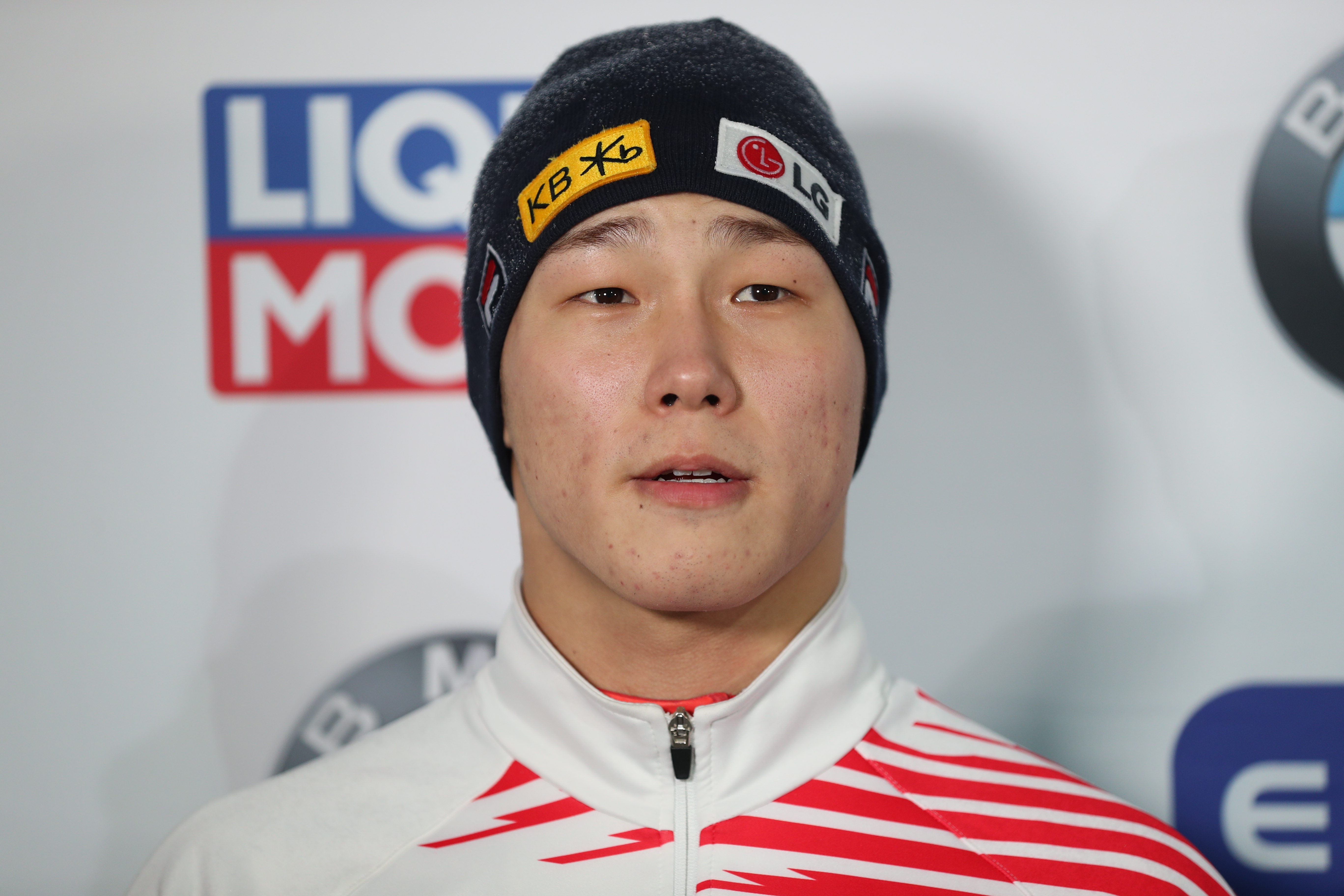 Men's World Cup race at the 2018/19 Skeleton World Cup in Altenberg: Yun Sung-bin (Korea)